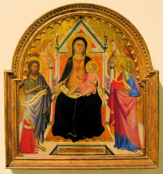 Don Silvestro dei Gherarducci (attributed to) (Italy, Florence, 1339 - 1399) Madonna and Child with Sts. John Baptist and Paul (?), circa 1375 Painting, Tempera on panel, 32 1/2 x 30 13/16 in. (82.55 x 78.11 cm); overall: 35 1/2 x 36 1/4 x 3 3/8 in. (90.17 x 92.08 x 8.57 cm); sight: 33 x 30 1/4 in. (83.82 x 76.84 cm) Gift of Samuel H. Kress Foundation (M.39.1) Wikipedia Loves Art at the Los Angeles County Museum of Art This photo of item # M.39.1 at the Los Angeles County Museum of Art was contributed under the team name "artifacts" as part of the Wikipedia Loves Art project in February 2009. Los Angeles County Museum of Art The original photograph on Flickr was taken by joel.parham—please add a comment to the original Flickr page whenever a use has been made on Wikipedia or another project. Project galleries on Flickr: this institution, this team Don Silvestro dei Gherarducci (attributed to) (Italy, Florence, 1339 - 1399) Madonna and Child with Sts. John Baptist and Paul (?), circa 1375 Painting, Tempera on panel, 32 1/2 x 30 13/16 in. (82.55 x 78.11 cm); overall: 35 1/2 x 36 1/4 x 3 3/8 in. (90.17 x 92.08 x 8.57 cm); sight: 33 x 30 1/4 in. (83.82 x 76.84 cm) Gift of Samuel H. Kress Foundation (M.39.1) Wikipedia Loves Art at the Los Angeles County Museum of Art This photo of item # M.39.1 at the Los Angeles County Museum of Art was contributed under the team name "artifacts" as part of the Wikipedia Loves Art project in February 2009. Los Angeles County Museum of Art The original photograph on Flickr was taken by joel.parham—please add a comment to the original Flickr page whenever a use has been made on Wikipedia or another project. Project galleries on Flickr: this institution, this team